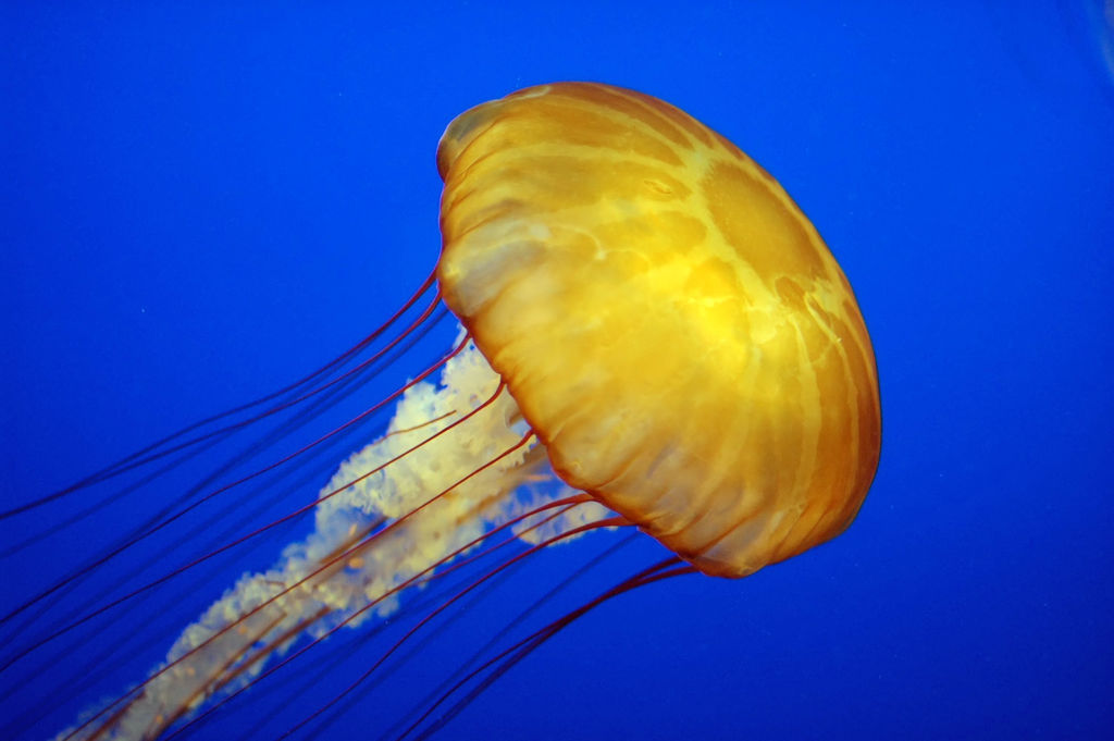 A Pacific sea nettle (Chrysaora fuscescens) at the Monterey Bay Aquarium in California, USA.